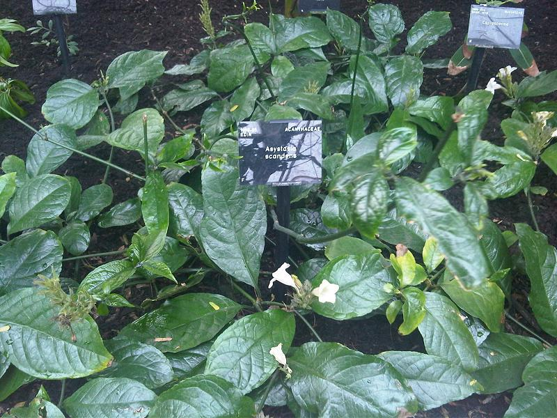 Asystasia scandens at Kew Gardens, England.